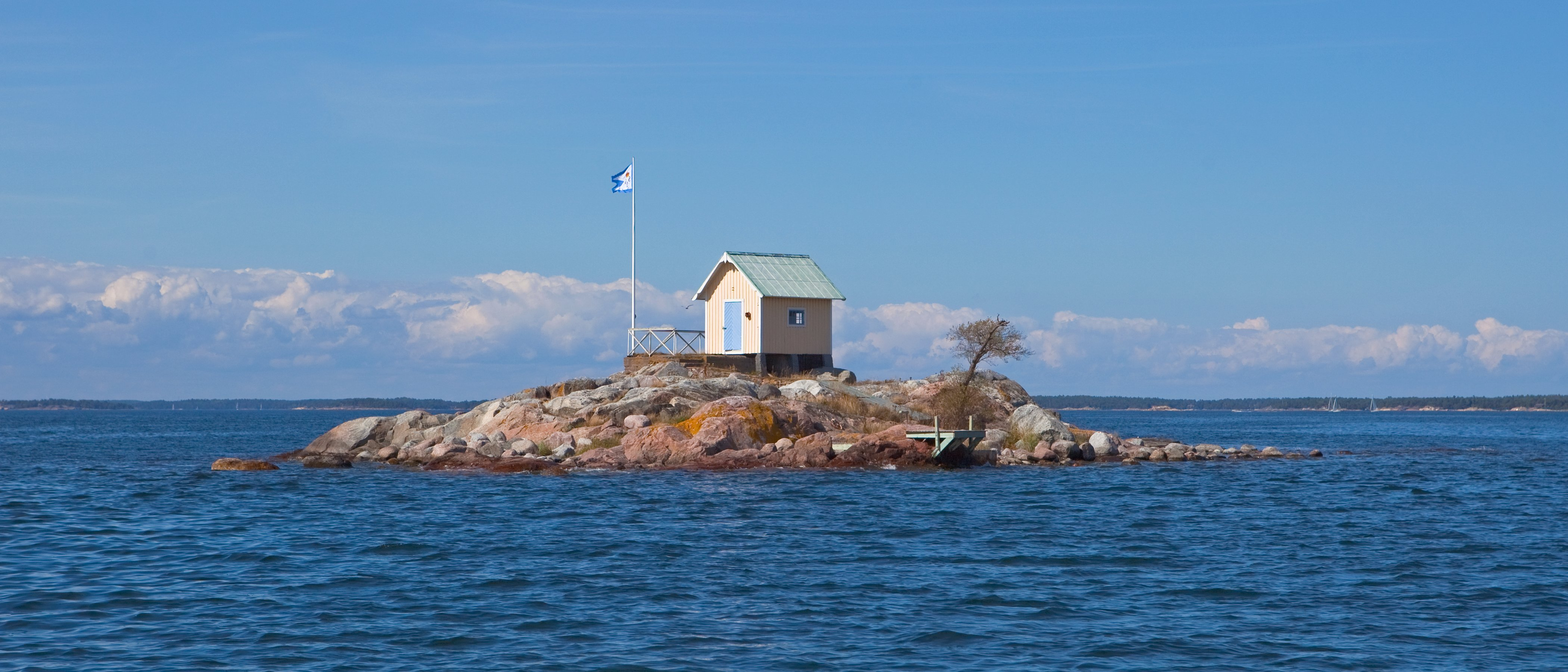 A racing pavilion at Lilla Gastholmsgrund in Kanholmsfjärden, Stockholm archipelago, Sweden.